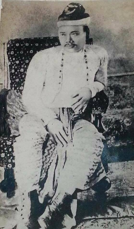 King Thaibaw in Ratnagiri, India.